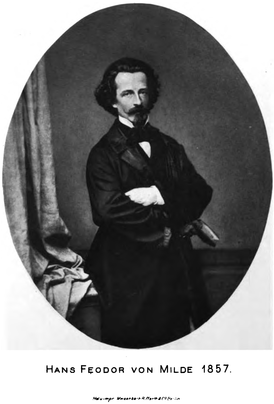 Picture of Hans von Milde (1857), Austrian baritone.